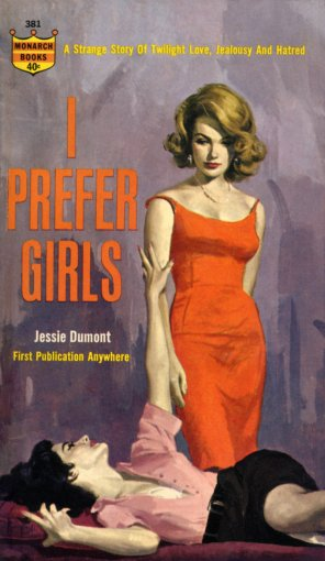 Cover of "I Prefer Girls" by Jessie Dumont. Illustration by Robert Maguire.